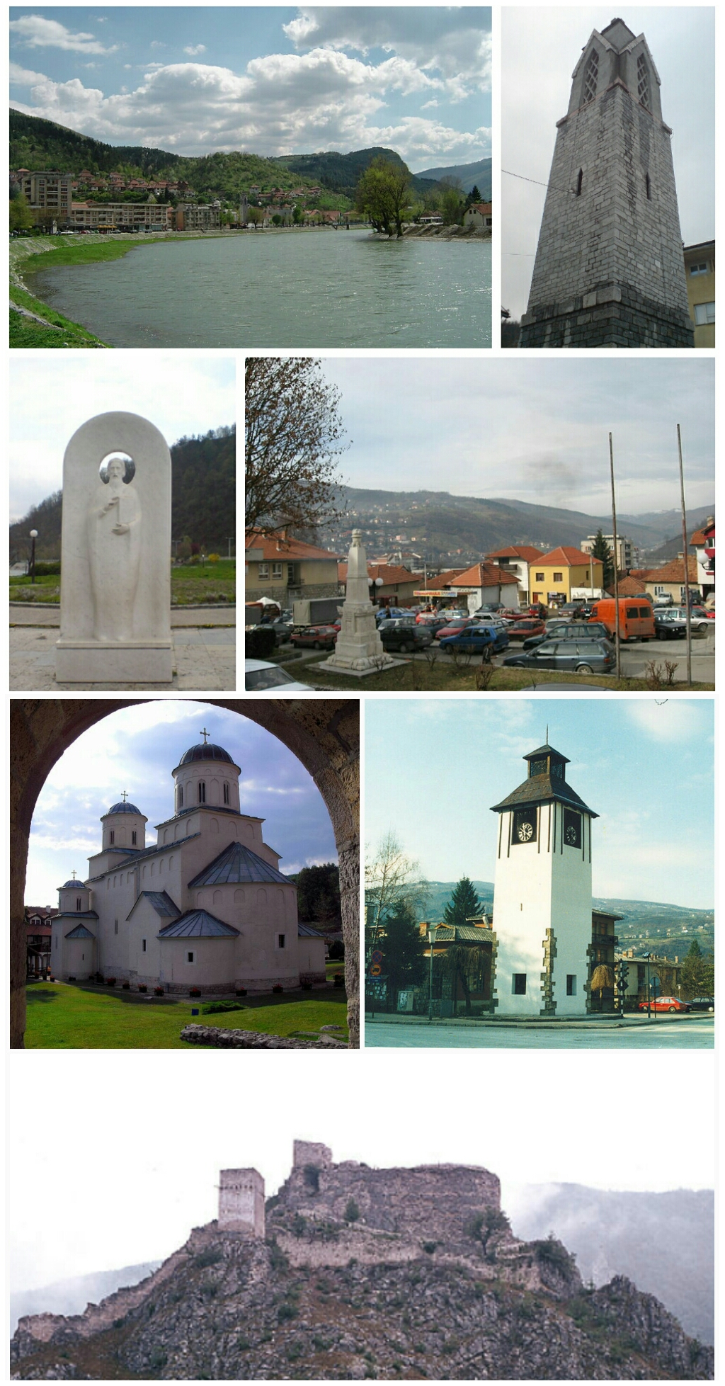 Prijepolje photomontage (Lim River and view on part of the town of Prijepolje, Bell tower in Prijepolje, Monument to St. Sava in Prijepolje, Center of the Prijepolje, Mileševa monastery, Clock tower, Milesevac Fortress)